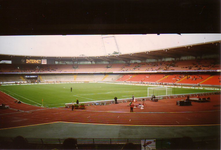 Old Colgne Muengersdorfer Stadium